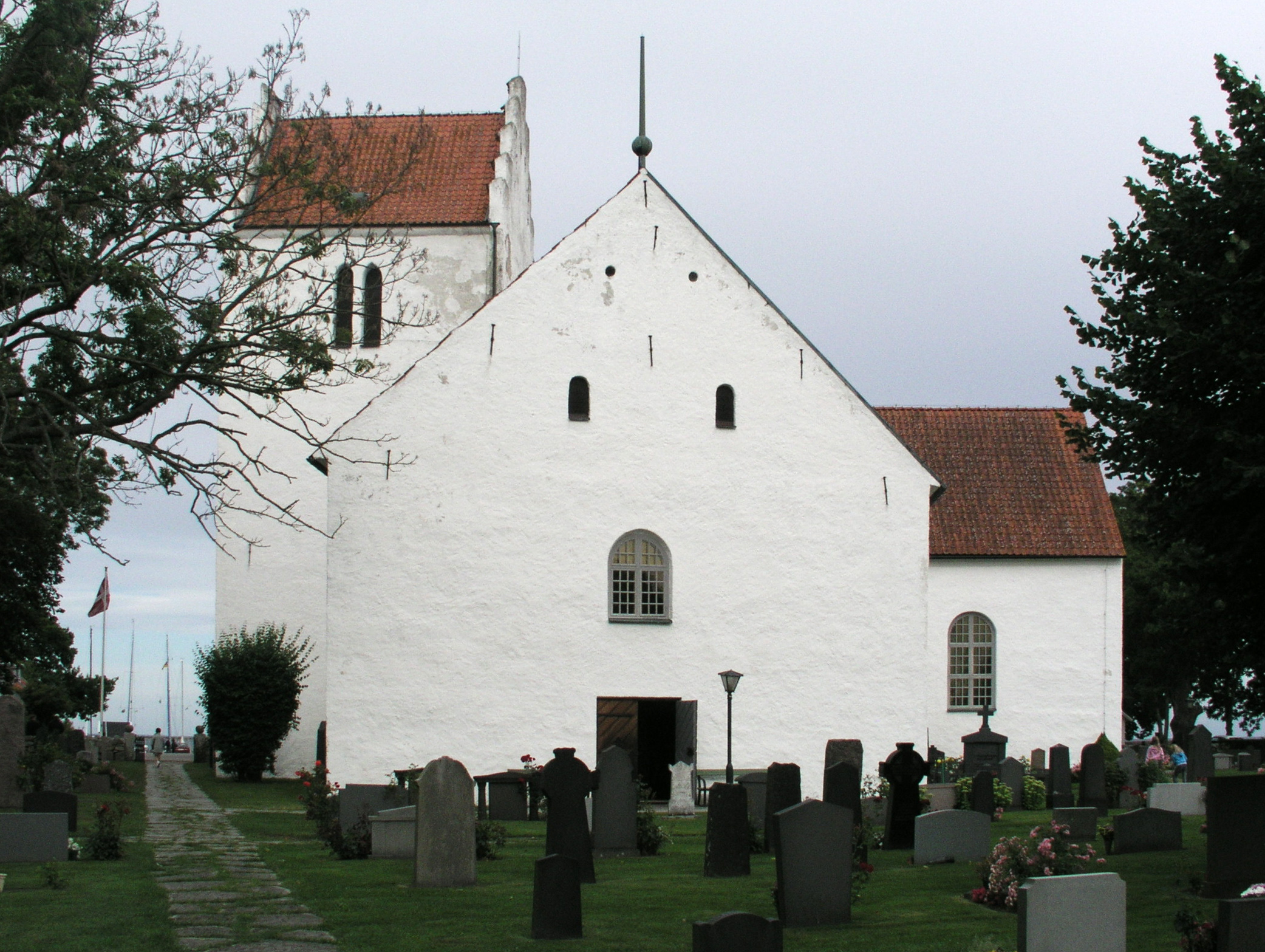 Kristianopels kyrka / church. Side view. The picture was taken the 5th of August 2005 by Håkan Svensson (Xauxa).